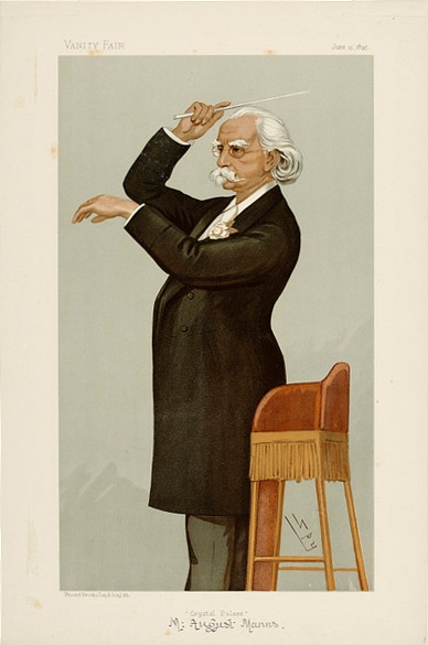 Caricature of conductor August Manns. Caption read "Crystal Palace".